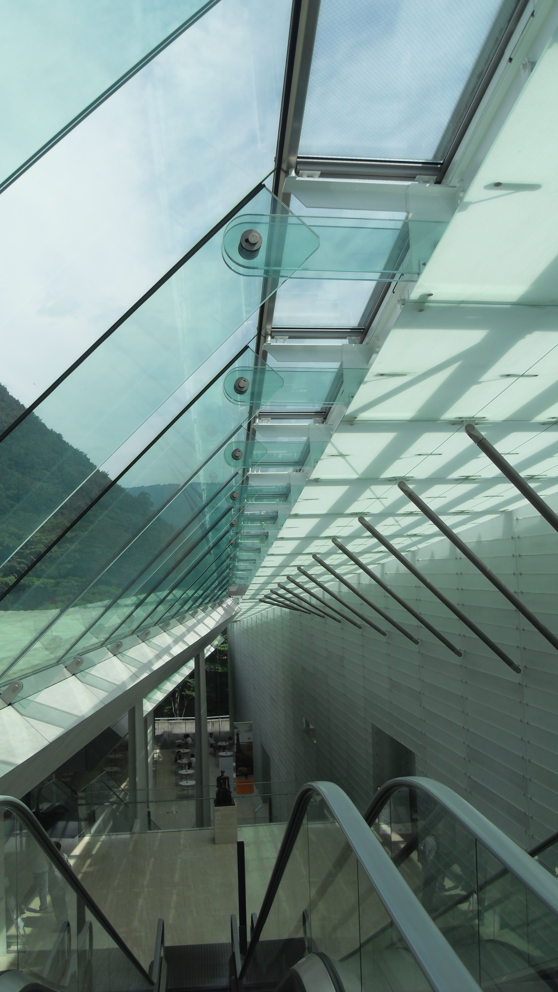 Pola Museum of Art, Hakone, Japan, Lobby